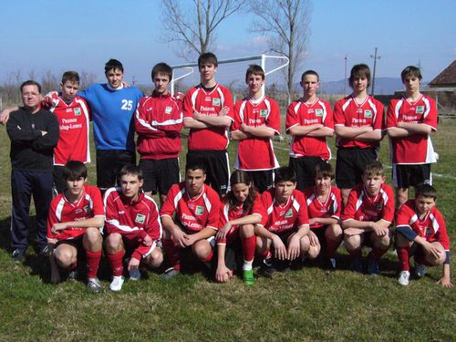 The young football playes of Dorog in 2009.